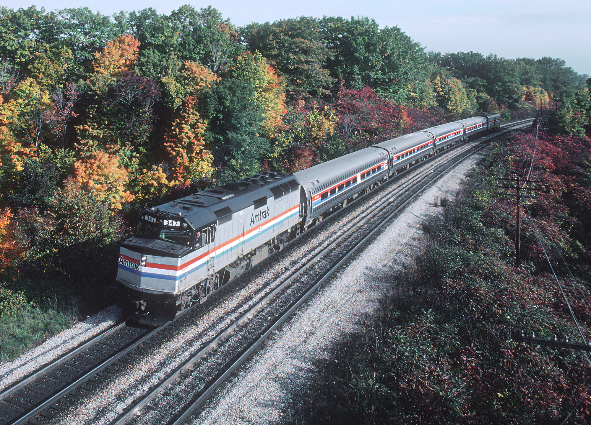 Amtrak locomotive #347 leads the southbound Maple Leaf approaching Bayview Junction near Hamilton, Ontario in October 1981